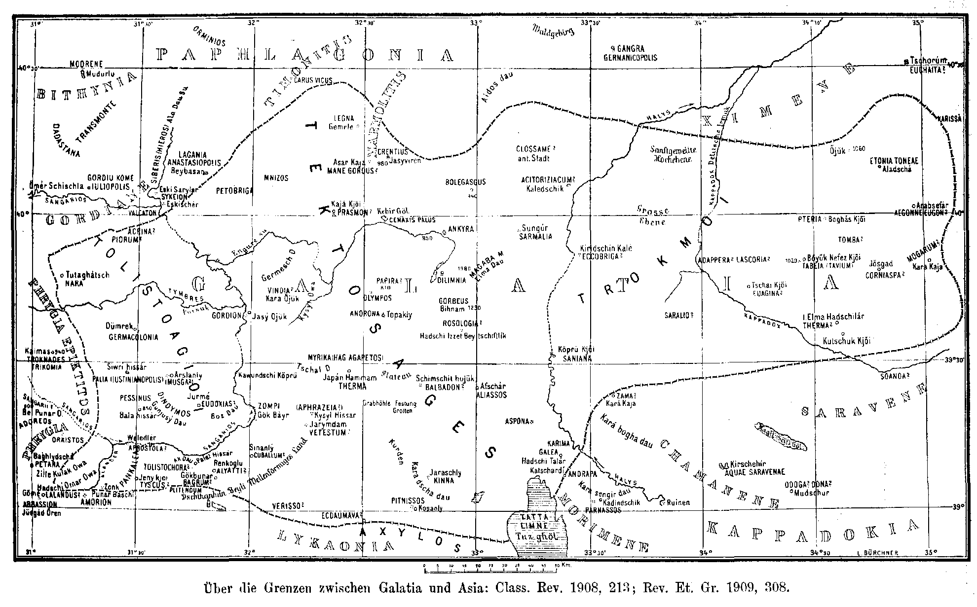 Map of Galatia